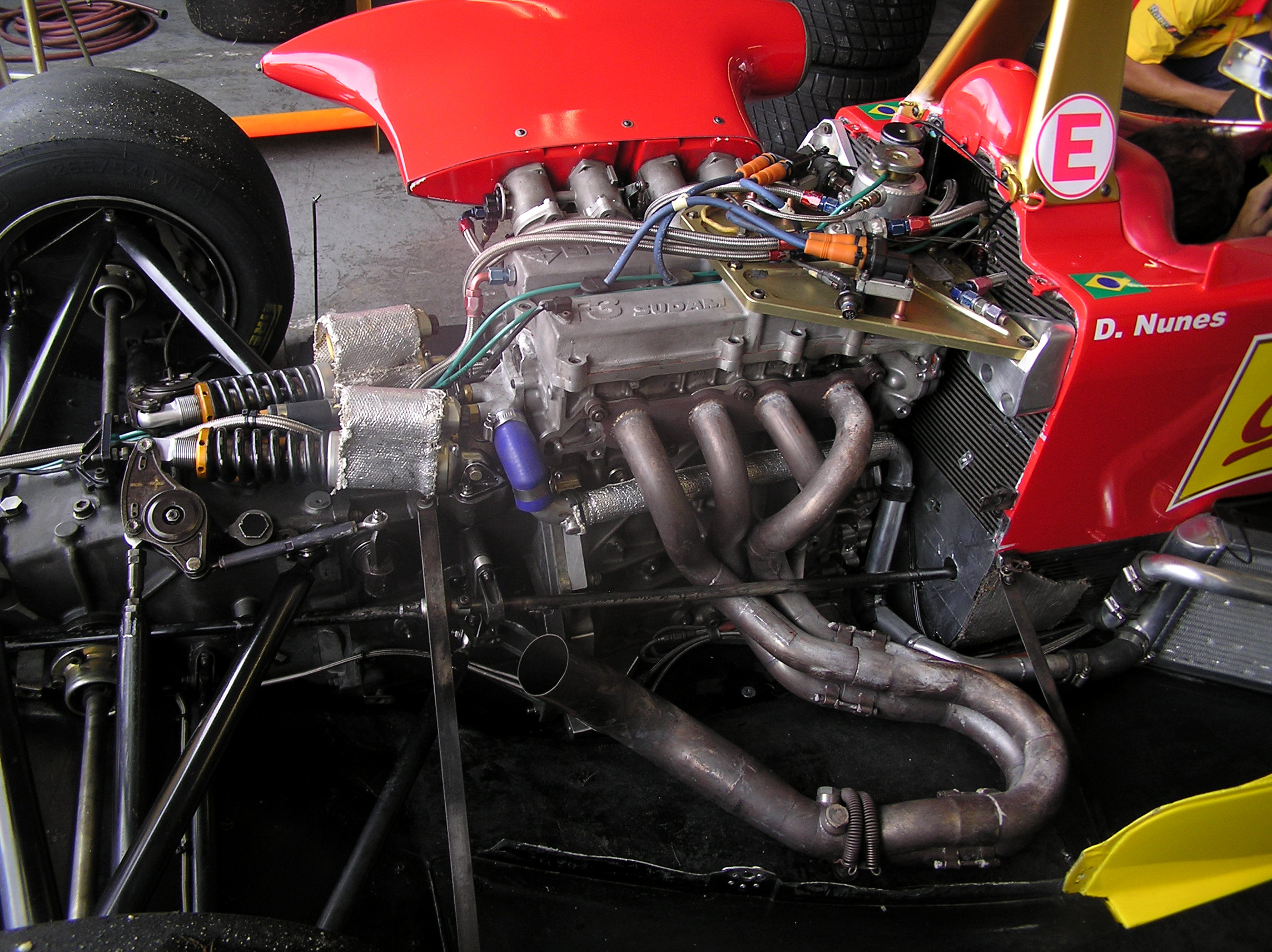 Formula 3 South America: Berta engine in Dallara F301.